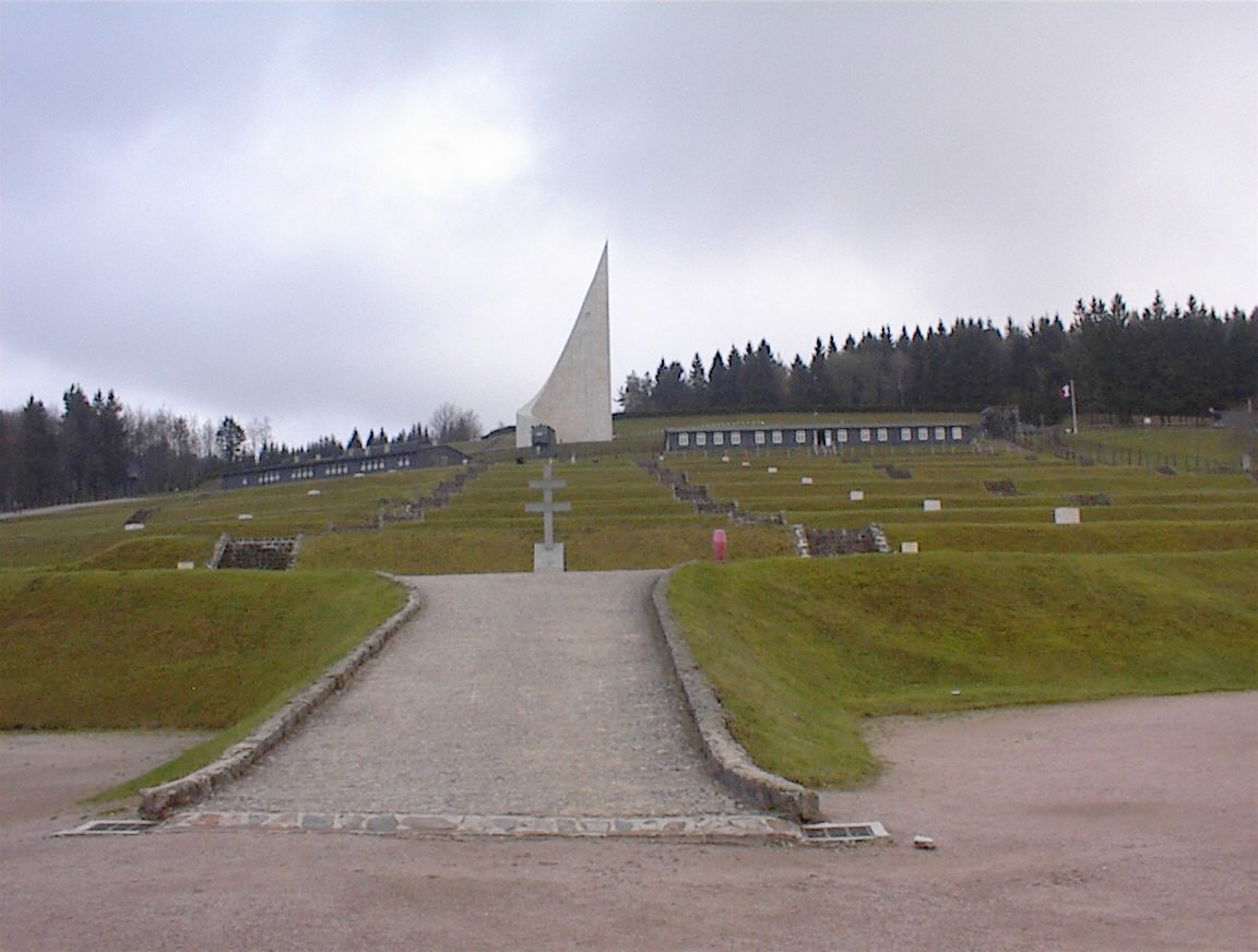 Panorama of Natzweiler-Struthof camp